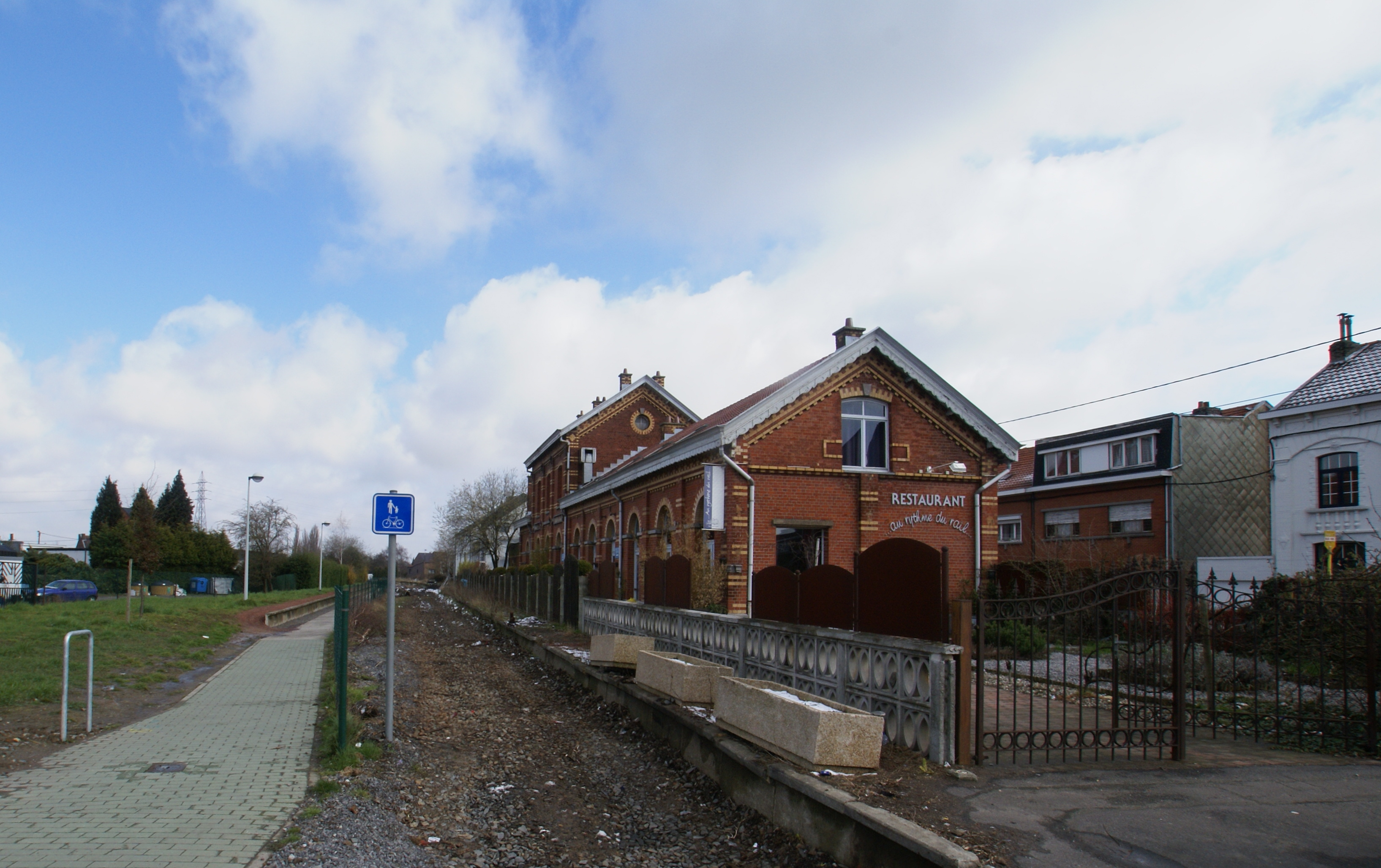 Liege (Rocourt), Belgium: Former railway station